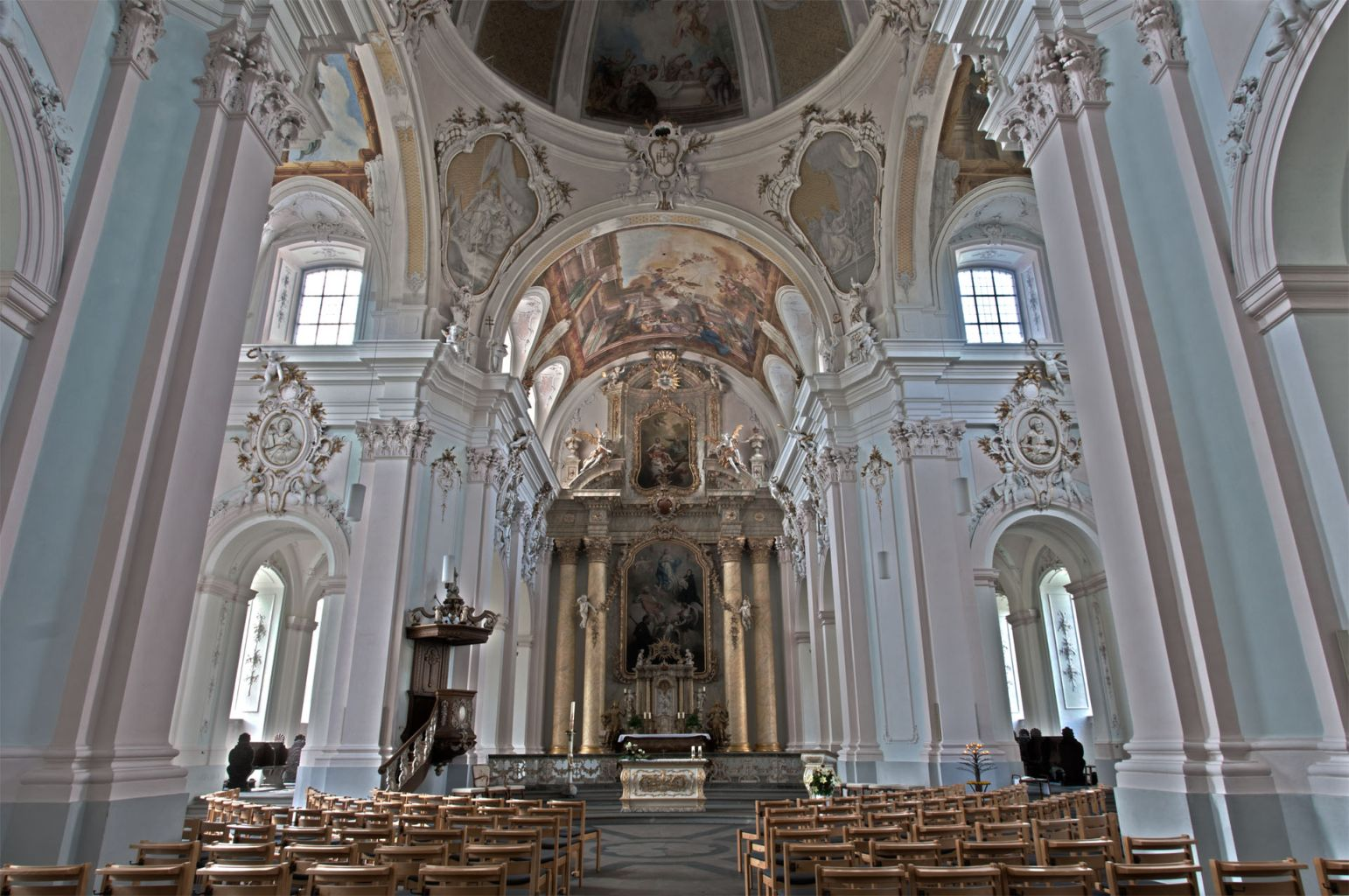 Church Maria Immaculata in Büren, inside view